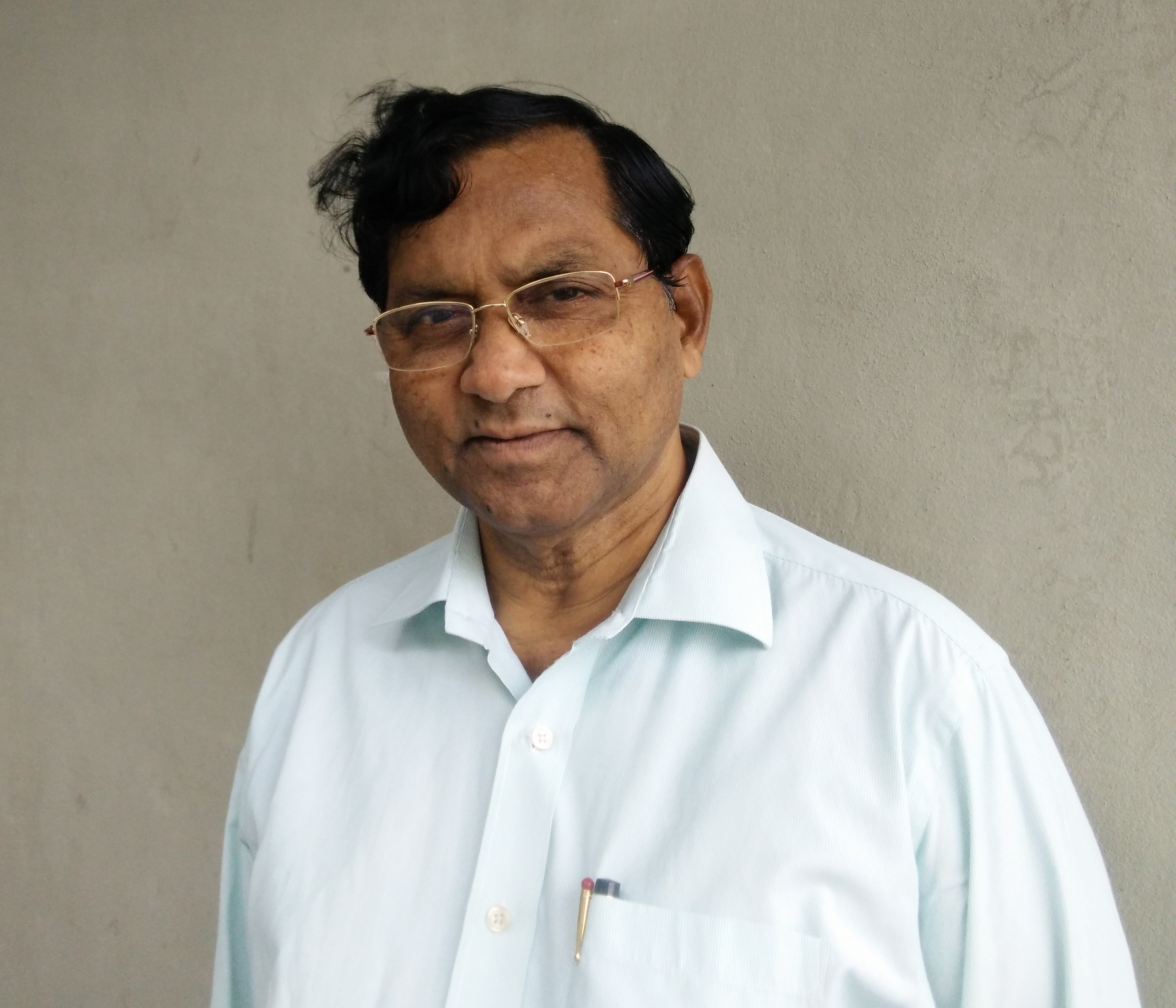 Acharya Anumandla Bhumaiah, former VC of Potti Sriramulu Telugu University